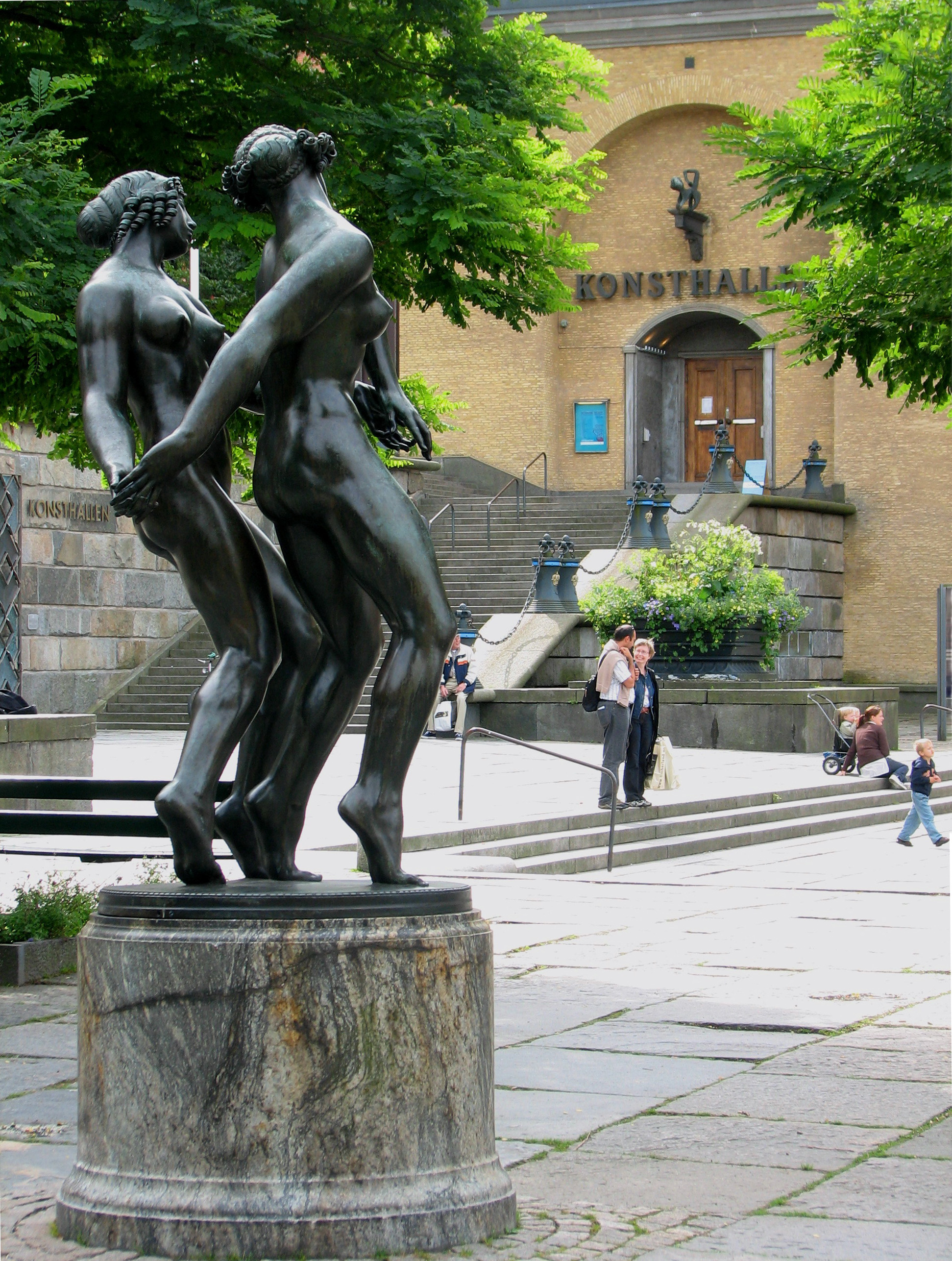 The sculpture Danserskorna by Carl Milles, placed outside the art museum in Göteborg, Sweden. In the background you see the entrance to Göteborgs konsthall.